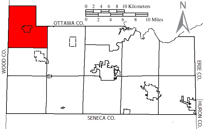 Made by the US Census and modified by User:Frank12